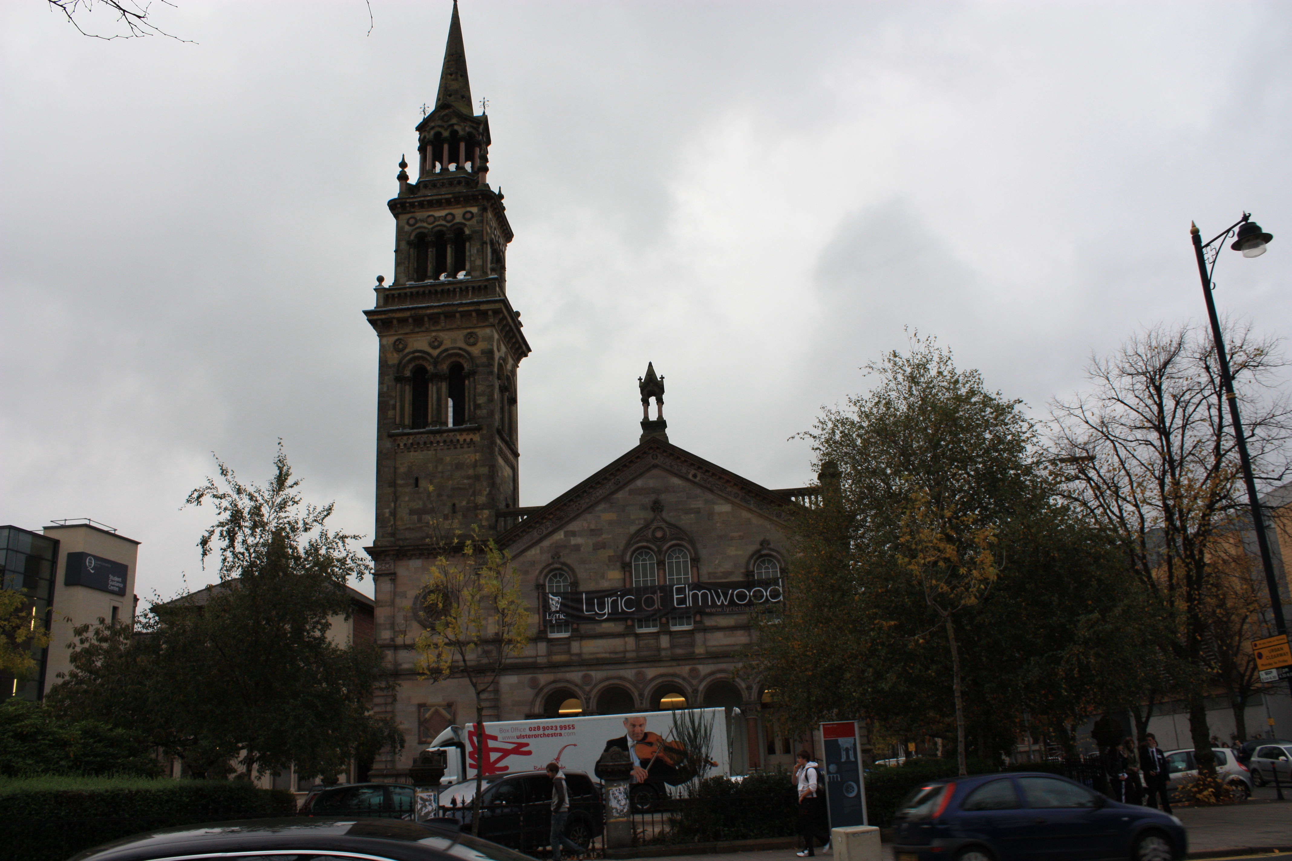 Elmwood Hall (home of the Ulster Orchestra), University Road, Belfast, Northern Ireland, October 2009 (also temporary home of the Lyric Theatre until their new building is complete)